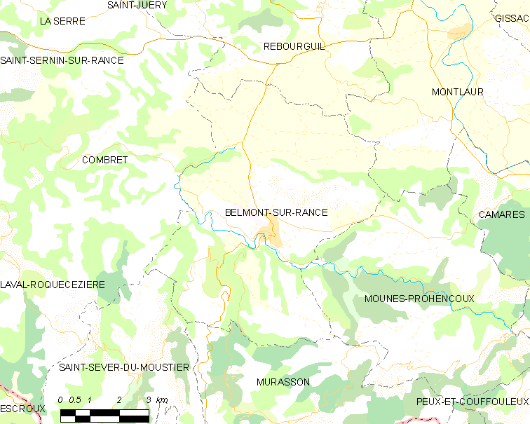 Map commune FR insee code 12025.png - Belmont-sur-Rance